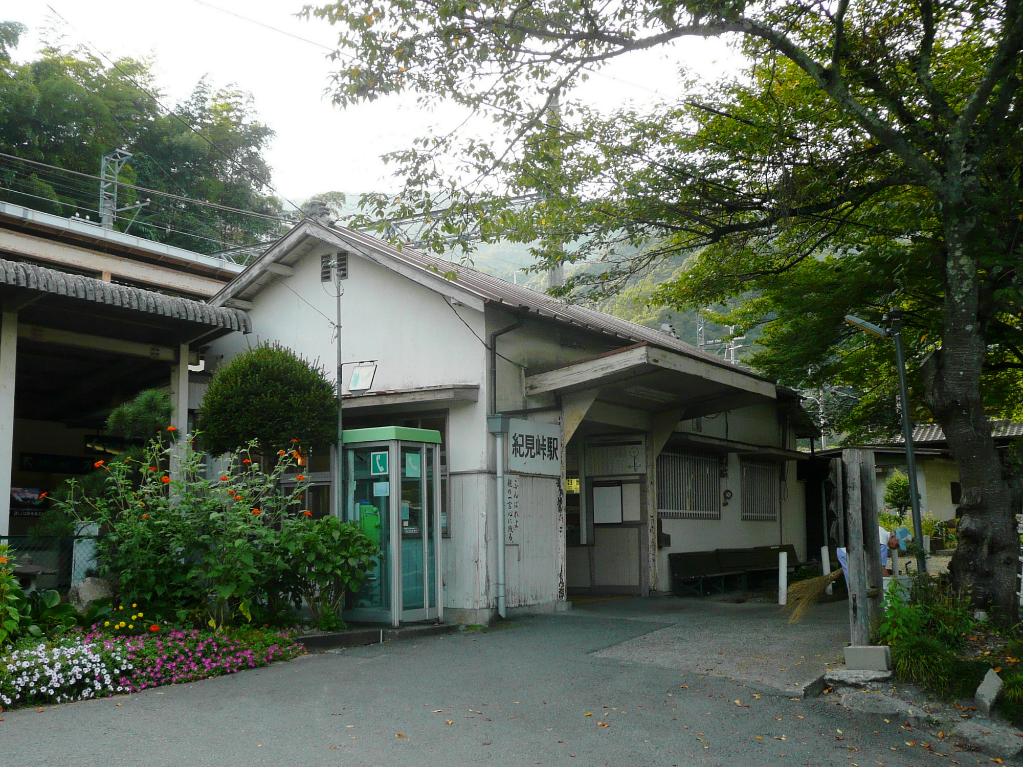 KIMITOGE Station,Nankai Electric Railway.